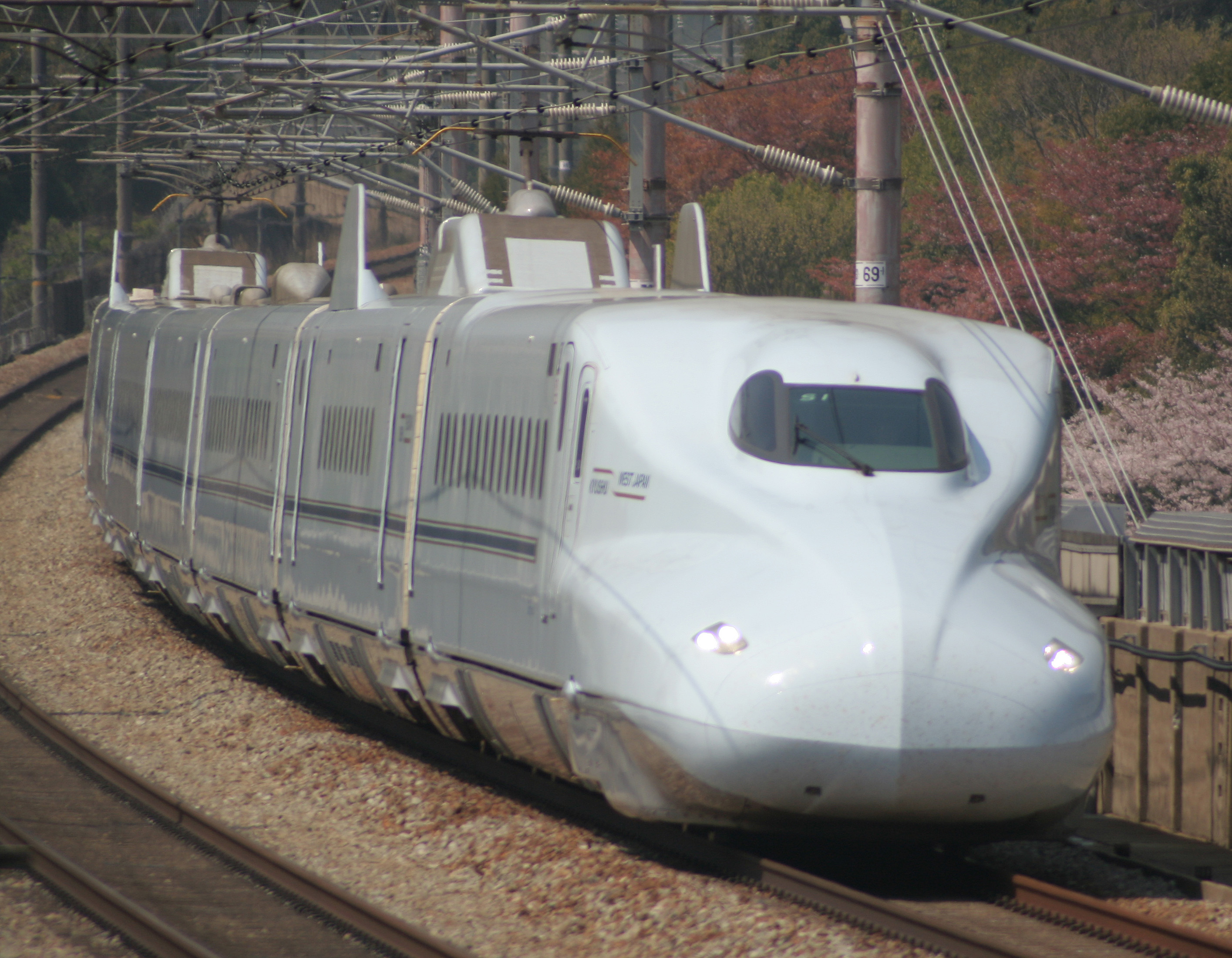 JR West N700-7000 series shinkansen set S1 undergoing test running between Okayama and Aioi stations on the Sanyo Shinkansen